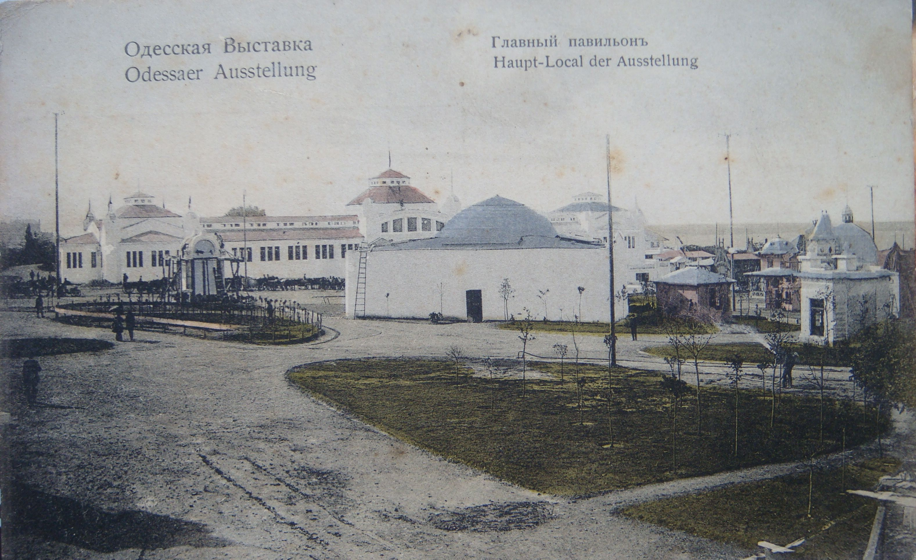 Old Carte Postale (Open Letter) issued in 1910 showed main pavilion of Odessa Exposition